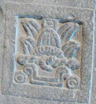 The date Two Reed, carved on the Teocalli of Sacred War.